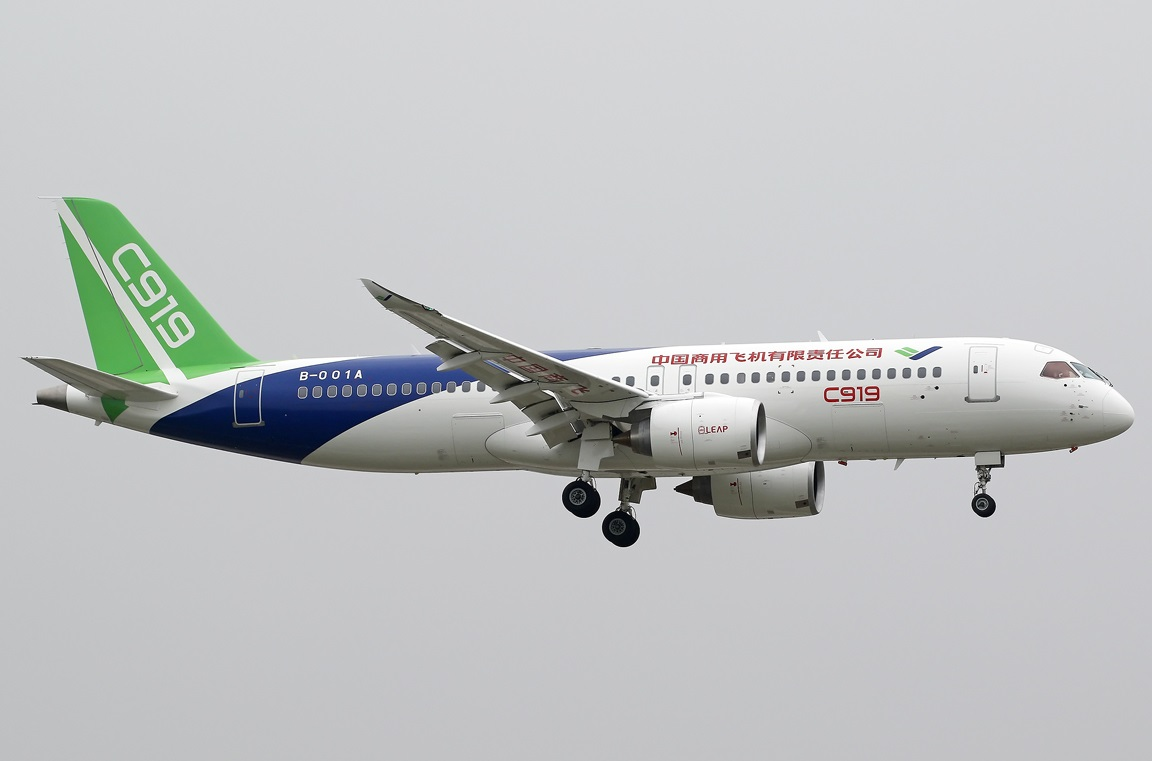 Photo of COMAC B-001A taken at Shanghai - Pudong International Airport